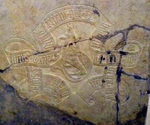 Contemporary wall sculpture near his grave of the coat of arms of King Olaf IV of Norway, Olaf II of DenmarkPlace: Cloister Church of Sorø, Ringstead, Denmark